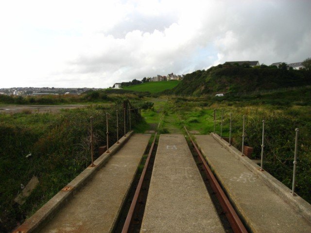 Castle Pill swing bridge The disused railway line running from the edge of the old swing bridge towards Milford haven.